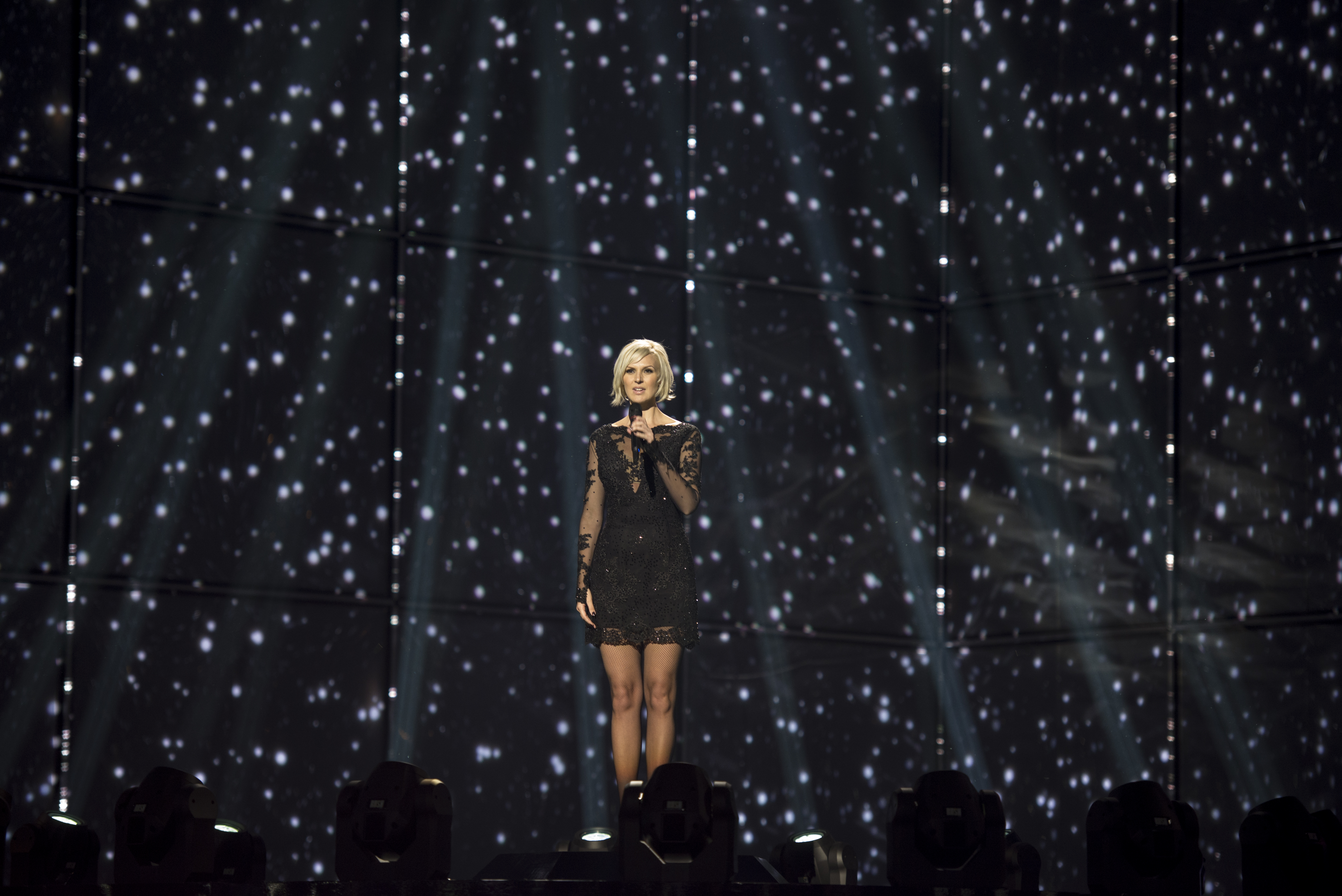 Sanna Nielsen representing Sweden with the song "Undo" during the first dress rehearsal of the first semi final of the Eurovision Song Contest 2014 Copenhagen. (Help translate this text)